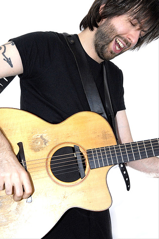 These were shot in Jon's bedroom. The guitar is a Lowther instrument, known to Jon as "Wilma". Depicted person: Jon Gomm – Acoustic guitarist